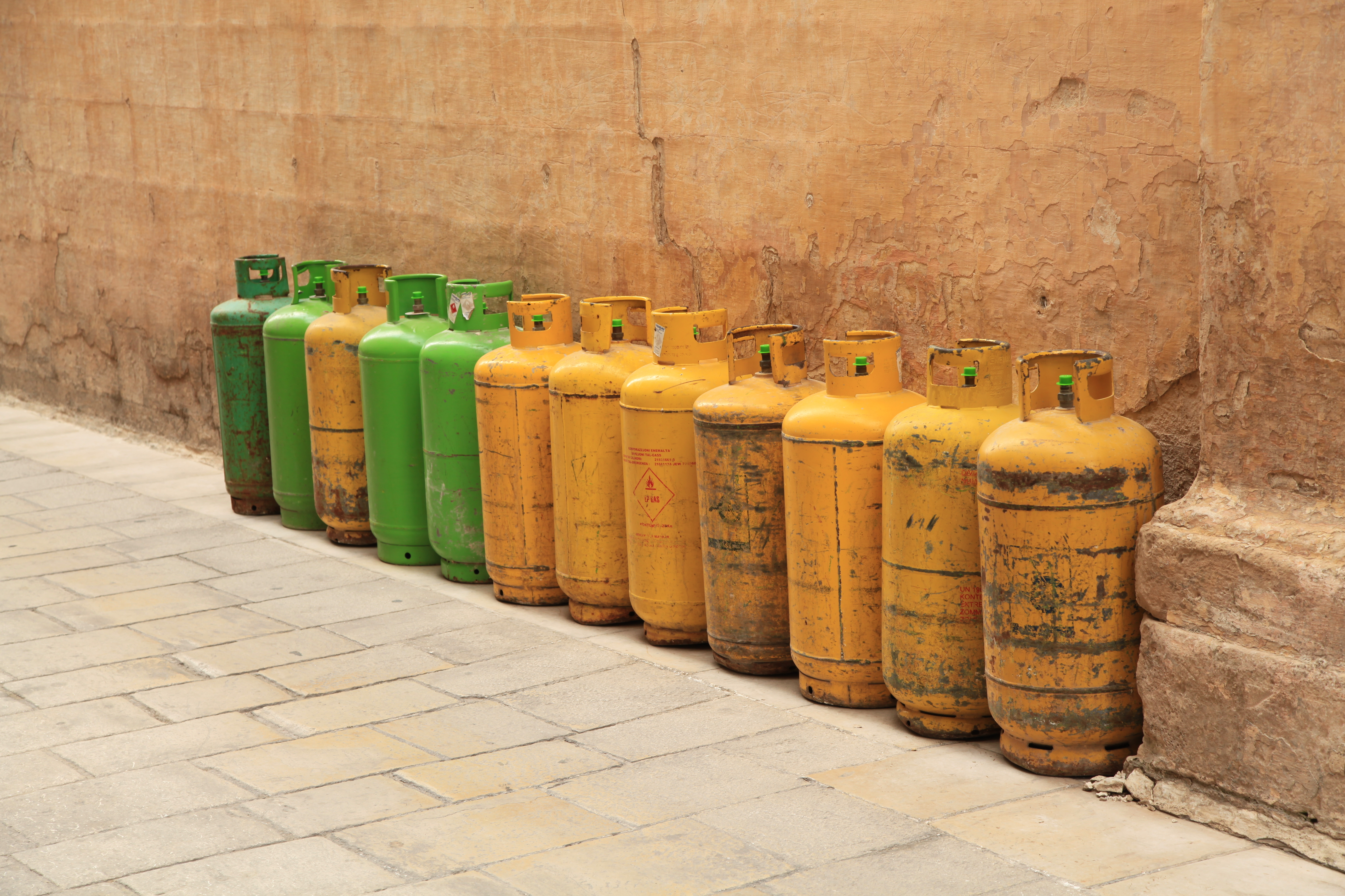 Triq San Pawl in Mdina, Malta